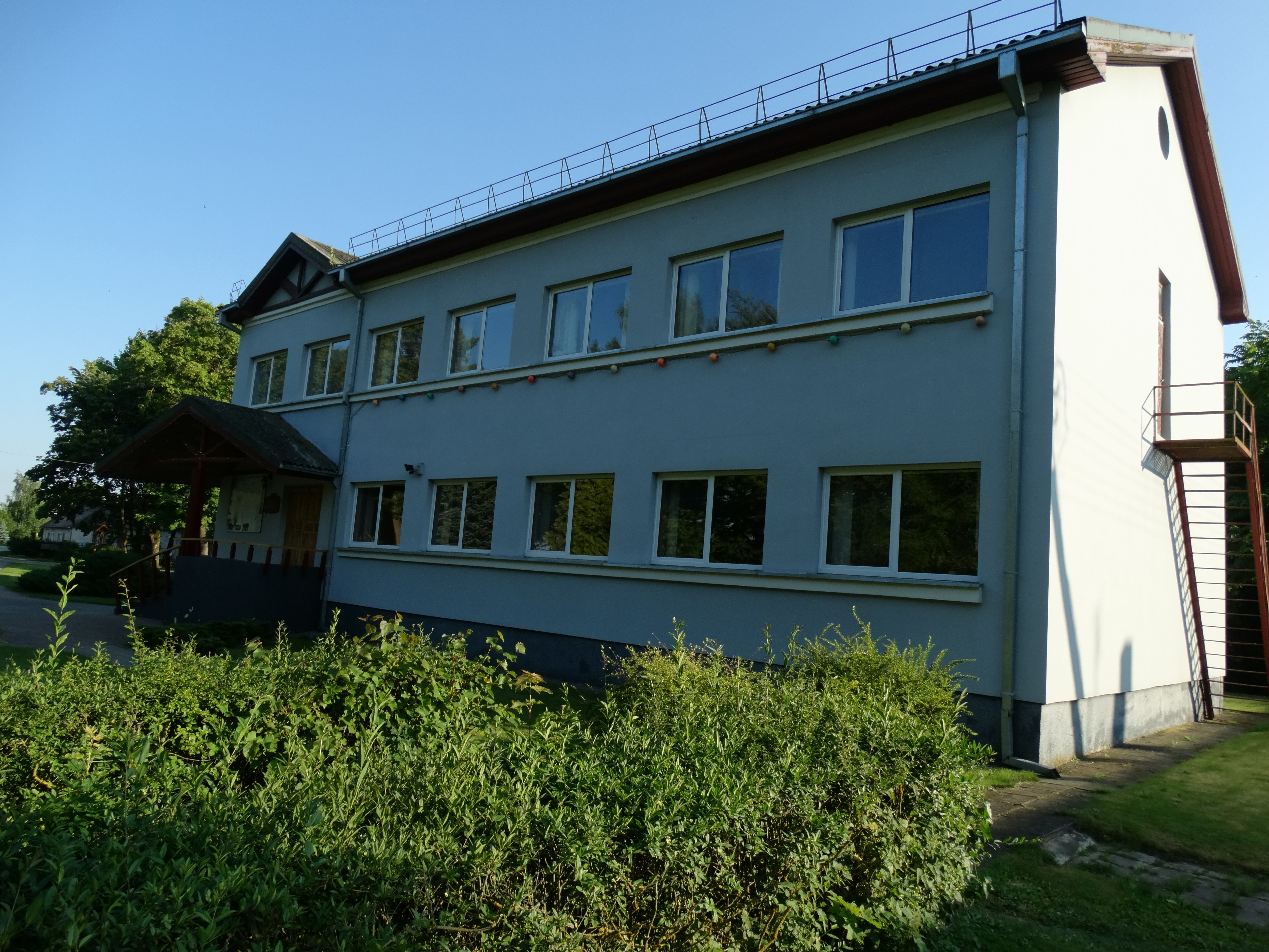 Forest enterprise, Joniškis district, Lithuania